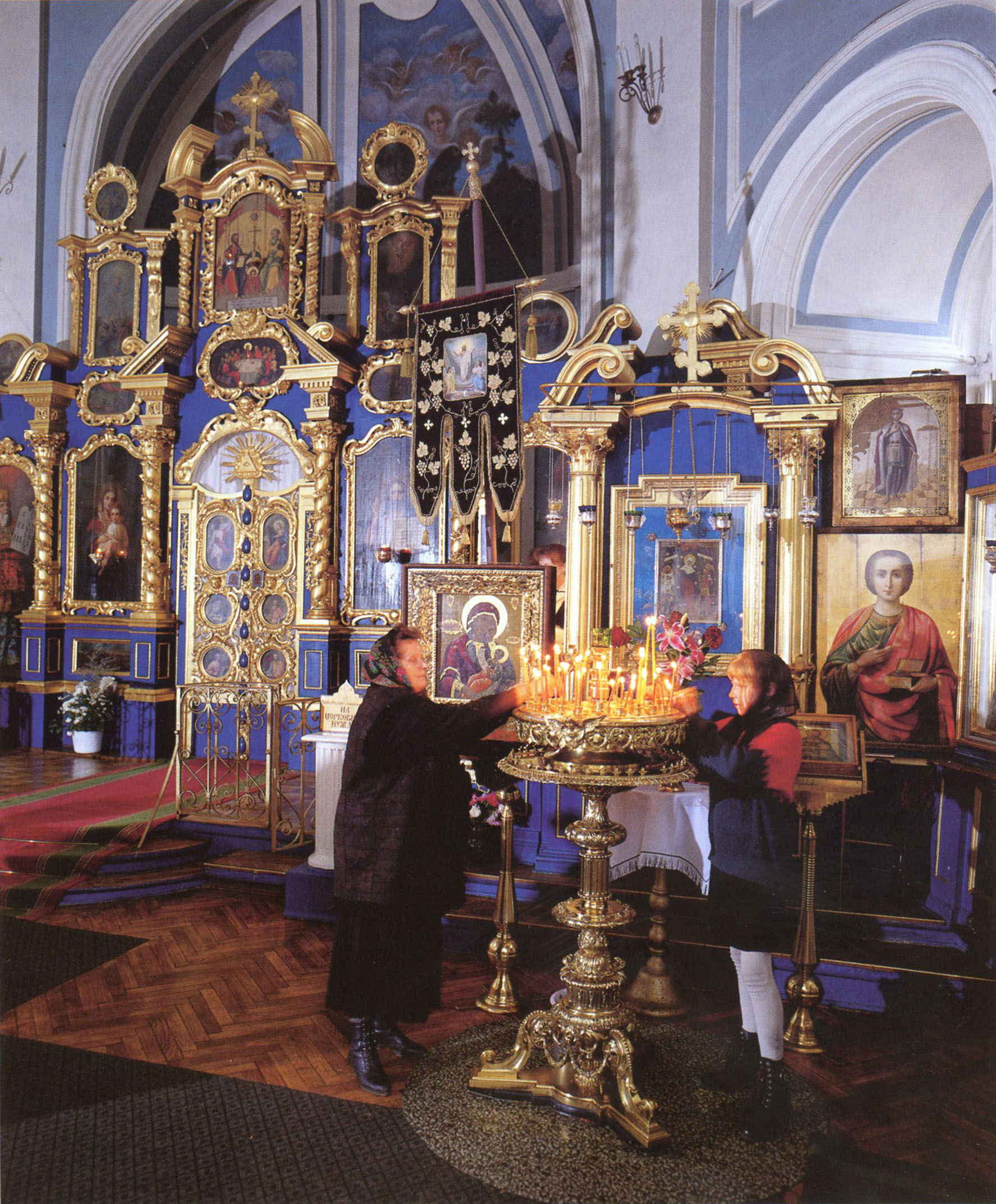 Saint Petersburg (Russia), Troitskaya church